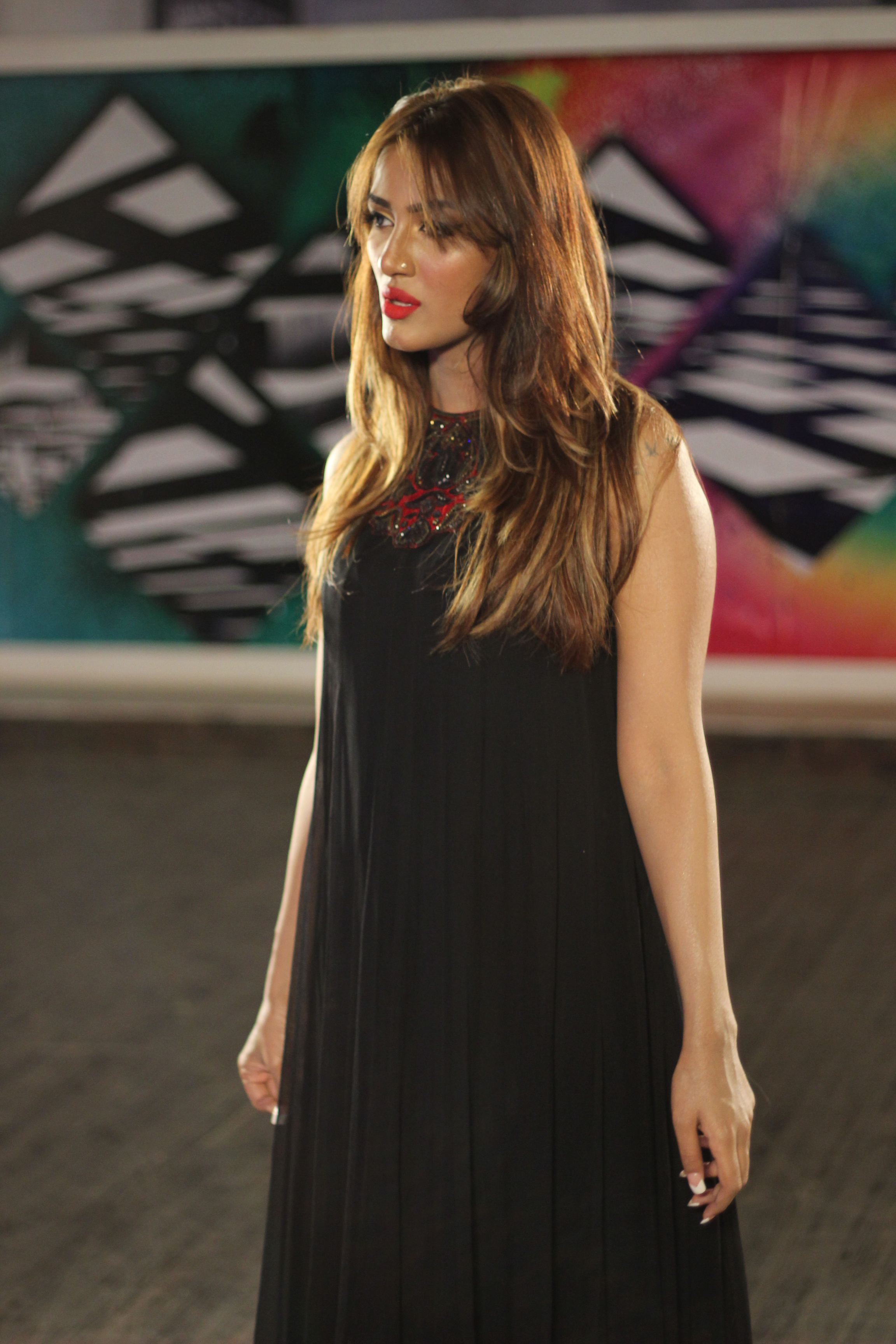 This picture is taken on 7th February, 2015 in the videoshoot of "Piya Re" with Furqan and Imran.